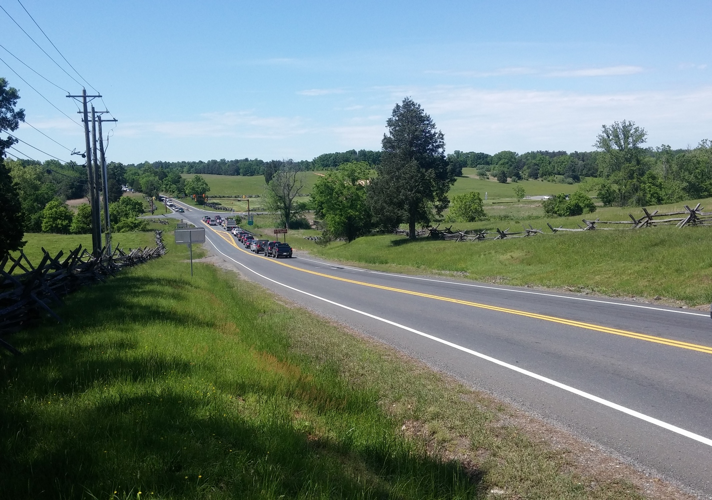 Sudley Road and Warrenton Turmpike intersection